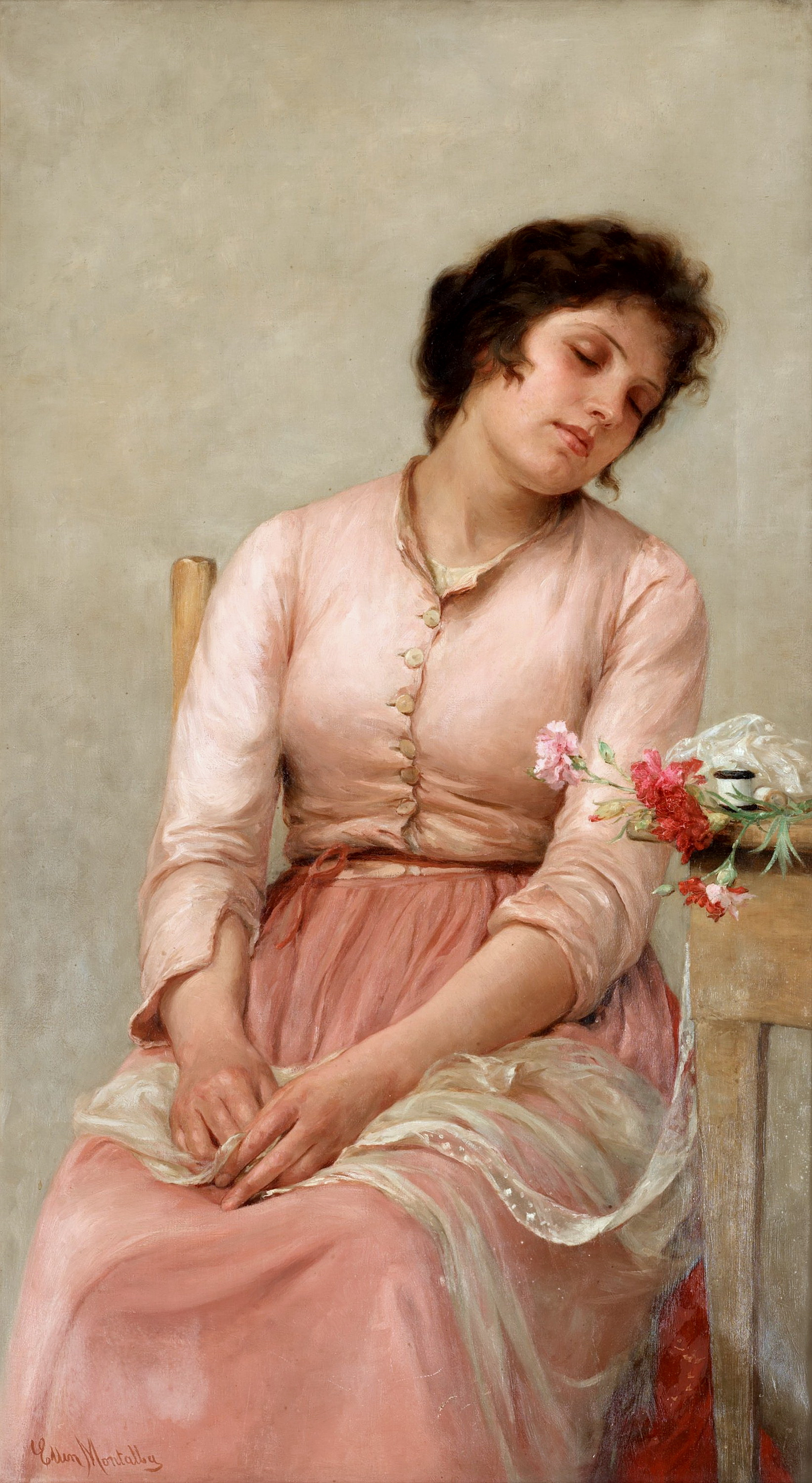 Dreams by Ellen Montalba, oil on canvas, 112.5 x 63 cm.